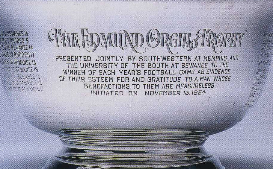 Orgill Cup Trophy